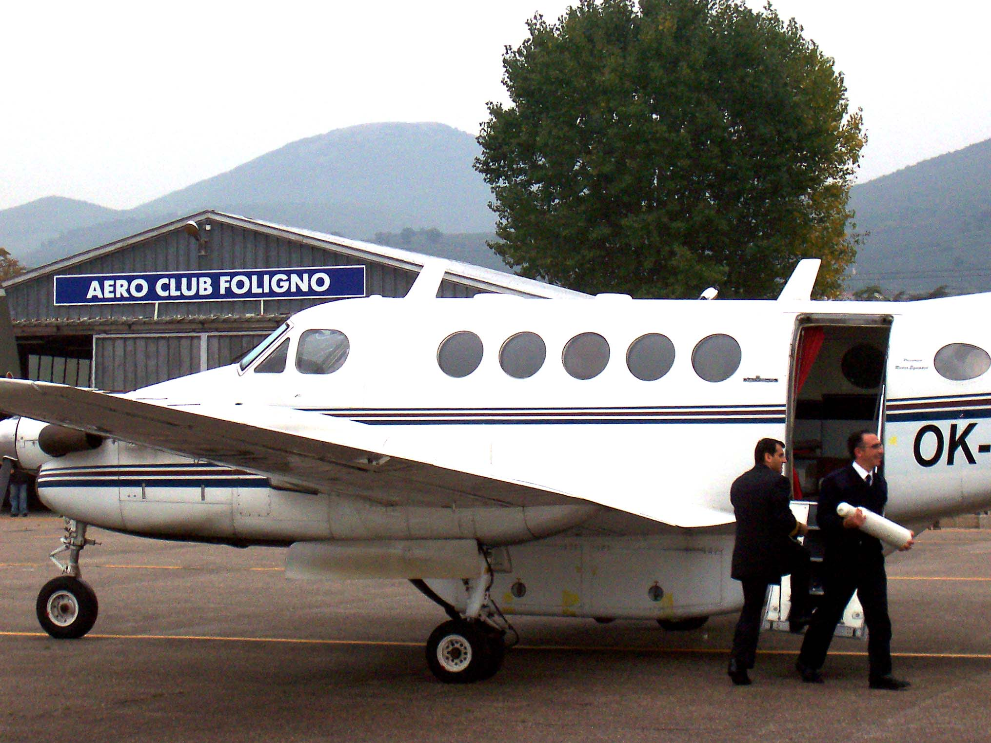 Aerotaxi, Foligno Airport